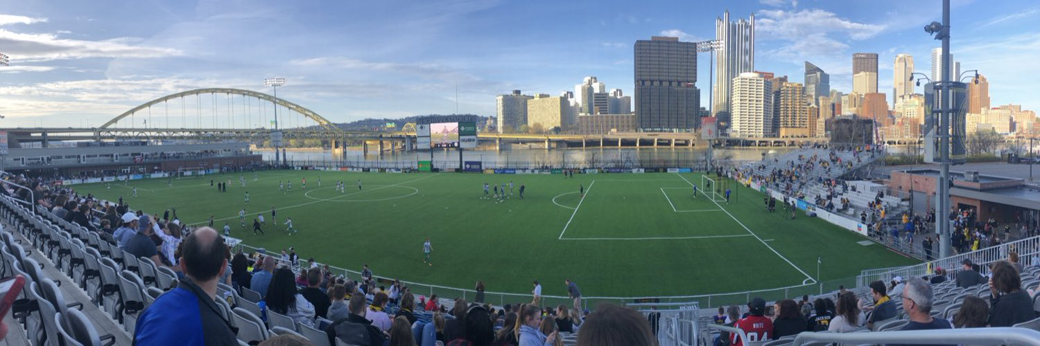 Updated Look of the Stadium